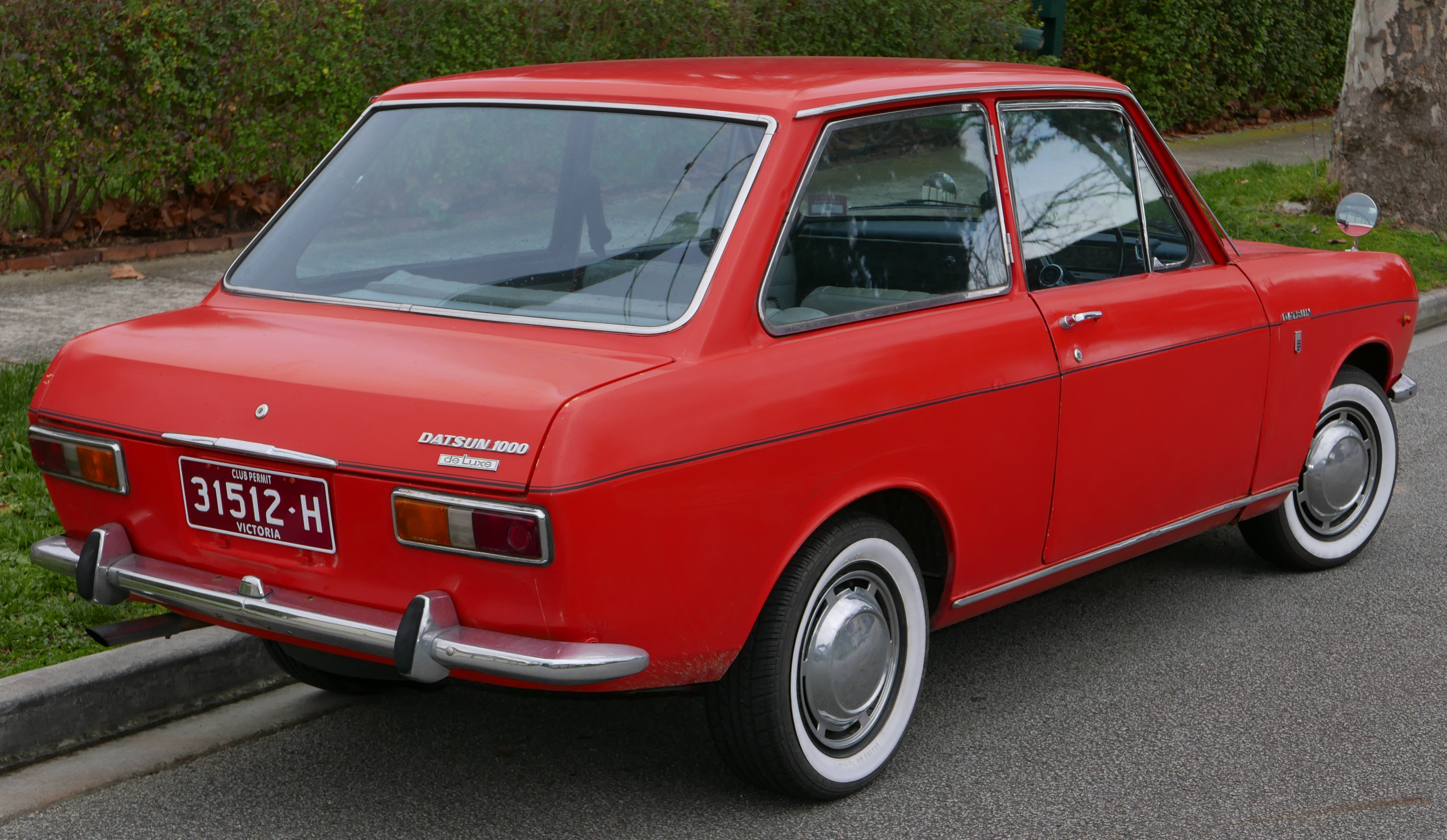 1967–1969 Datsun 1000 DeLuxe 2-door sedan. Photographed in Ivanhoe, Victoria, Australia.